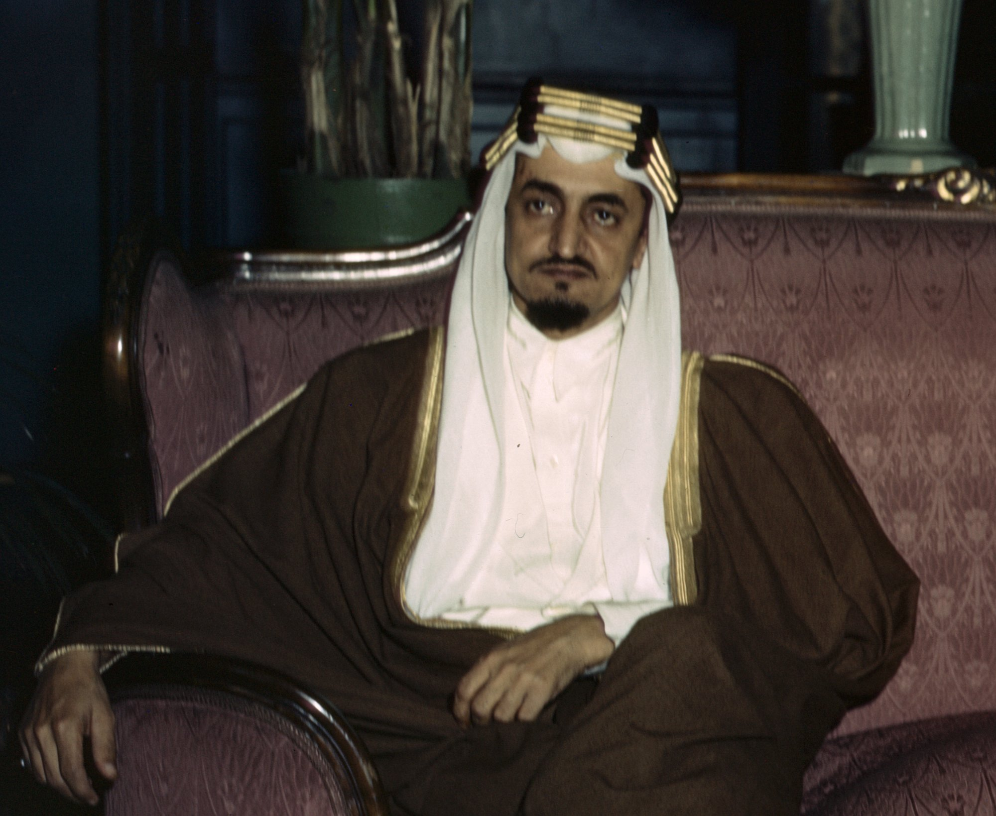 Amir Faisal of Saudi Arabia (left), son of King Ibn Saud of Saudi Arabia.